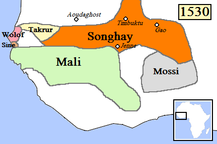 Map of West Africa, AD 1530. (Partially based on Atlas of World History (2007) - Islam and new states in Africa, map.)